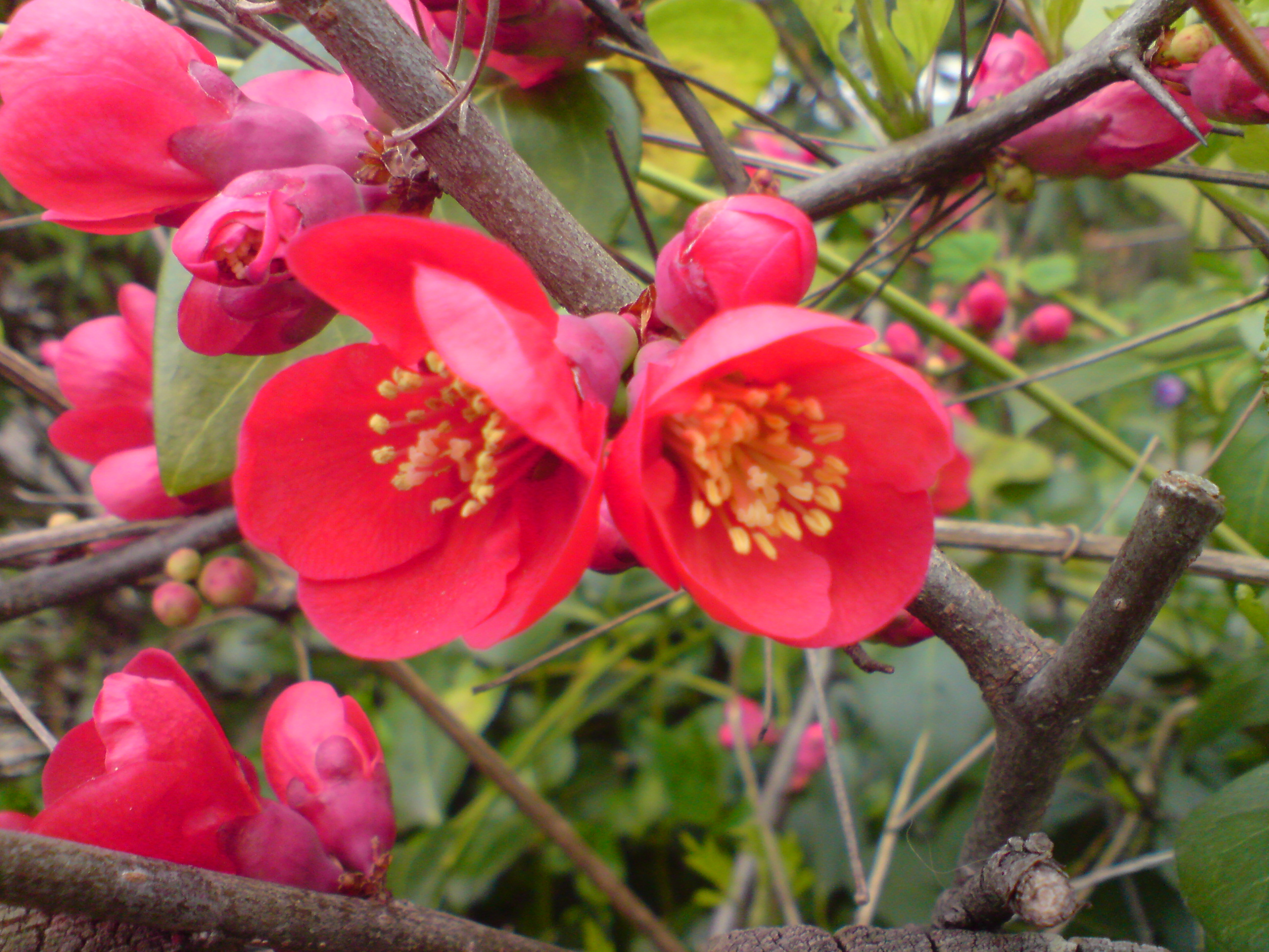 Chaenomeles japonica flowers closeup in London, England.